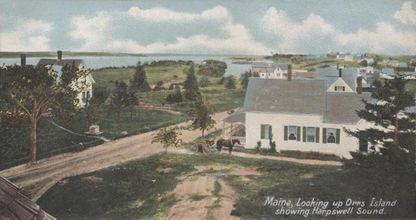 Looking up Orr's Island, showing Harpswell Sound, Harpswell, ME; from a 1906 postcard published by the Hugh C. Leighton Company, Portland, Maine.